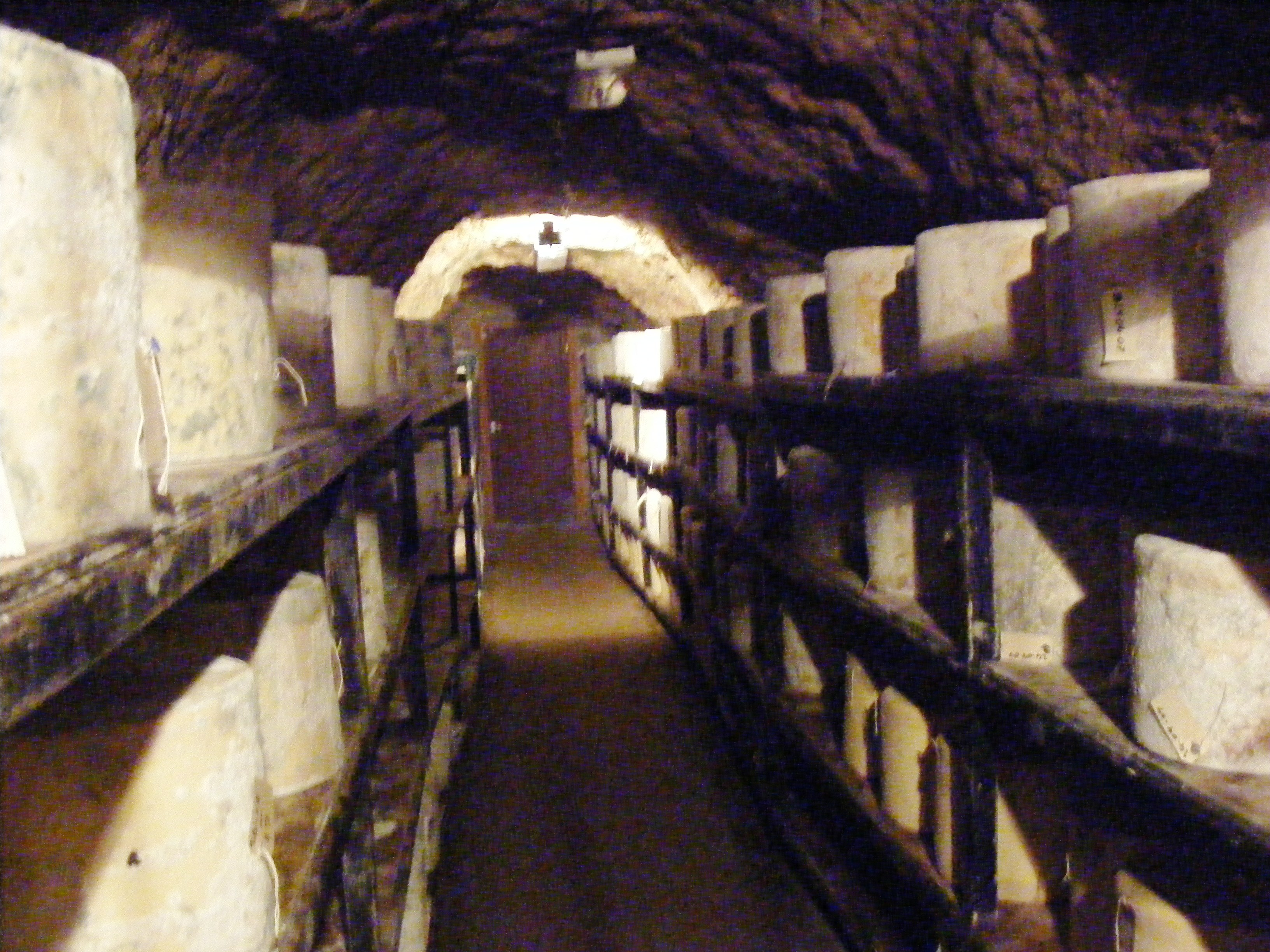 Cheeses being stored and matured at Wookey Hole Caves